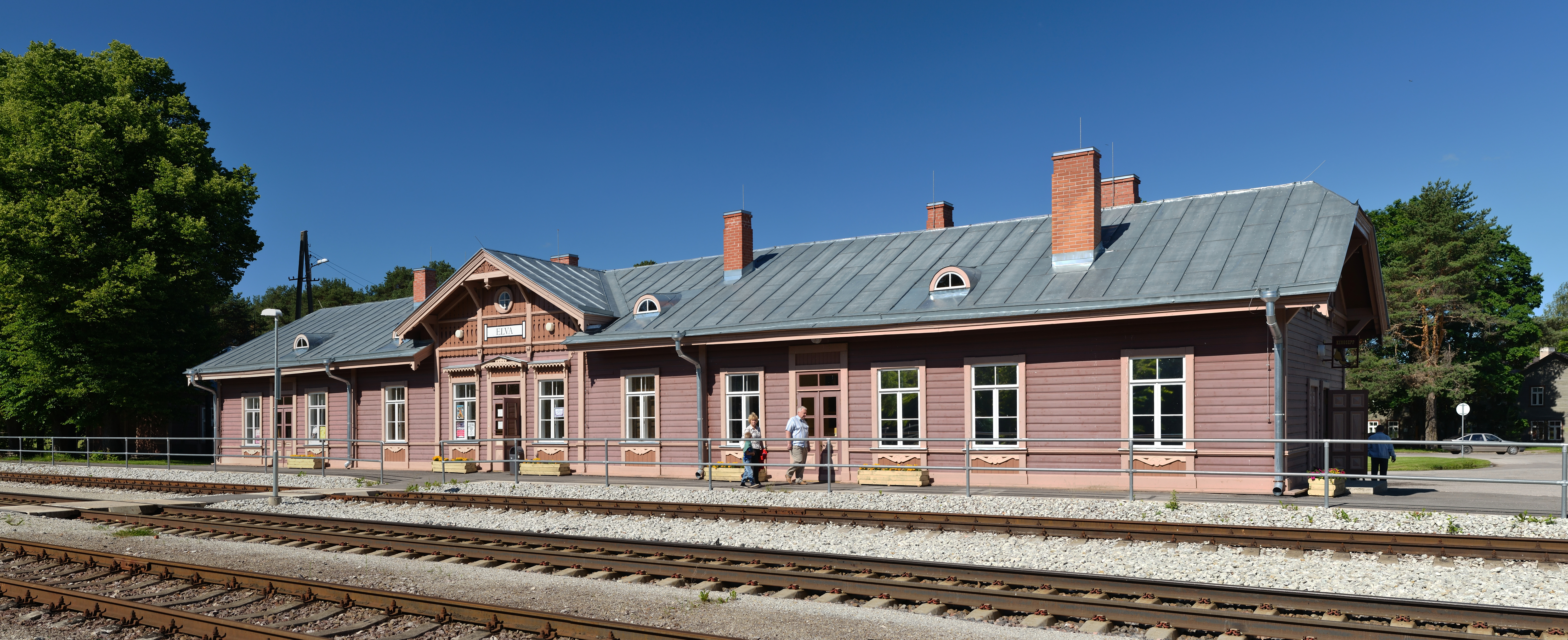 Elva station building